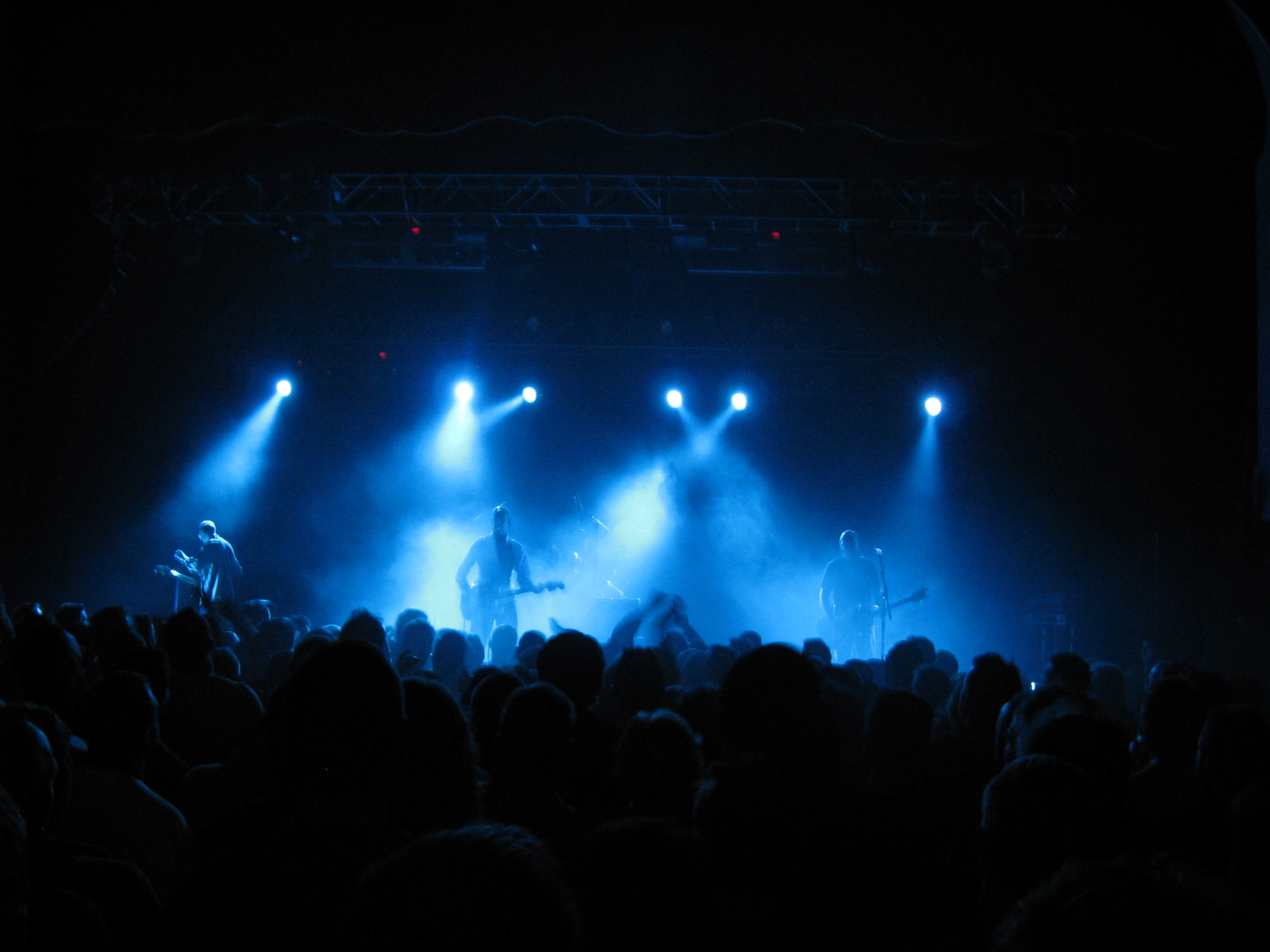 Half Man Half Biscuit live in concert.